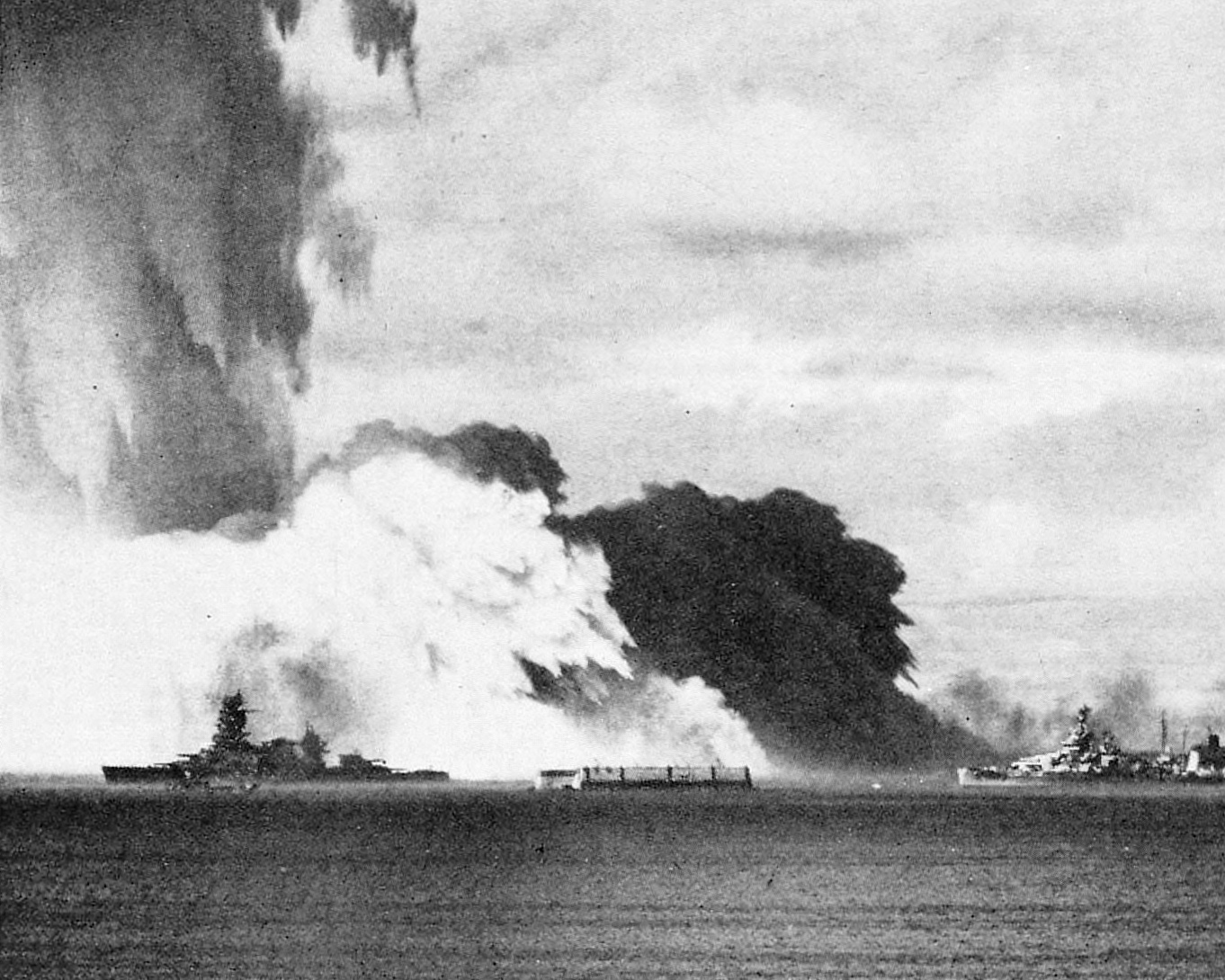 The Baker shot of Operation Crossroads, Bikini Atoll, July 25, 1946. As the spray column collapses a 900-foot-tall "base surge" of radioactive mist envelops the target ships. Ship in the foreground (left) is the Japanese battleship Nagato.